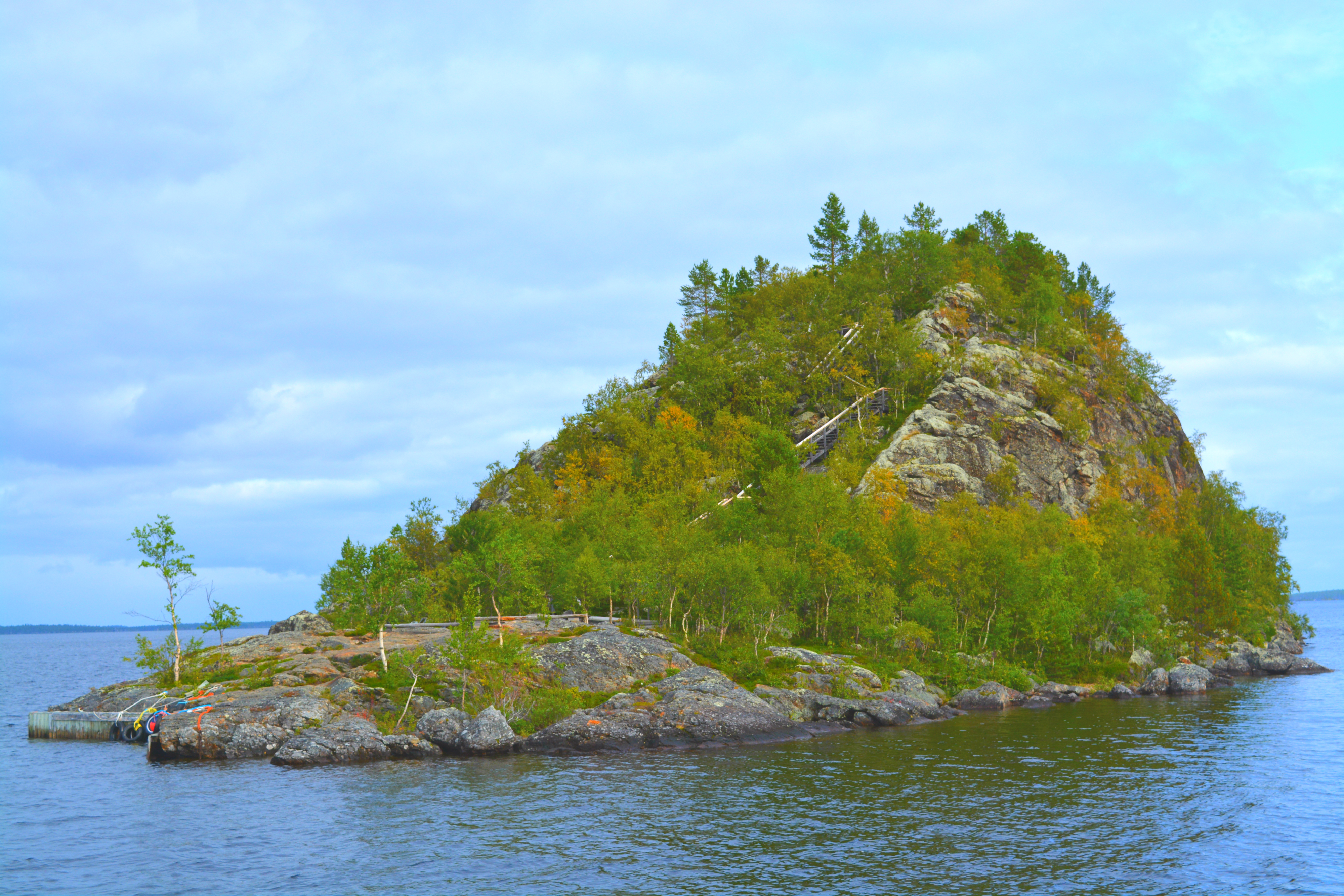 Ukko's rock